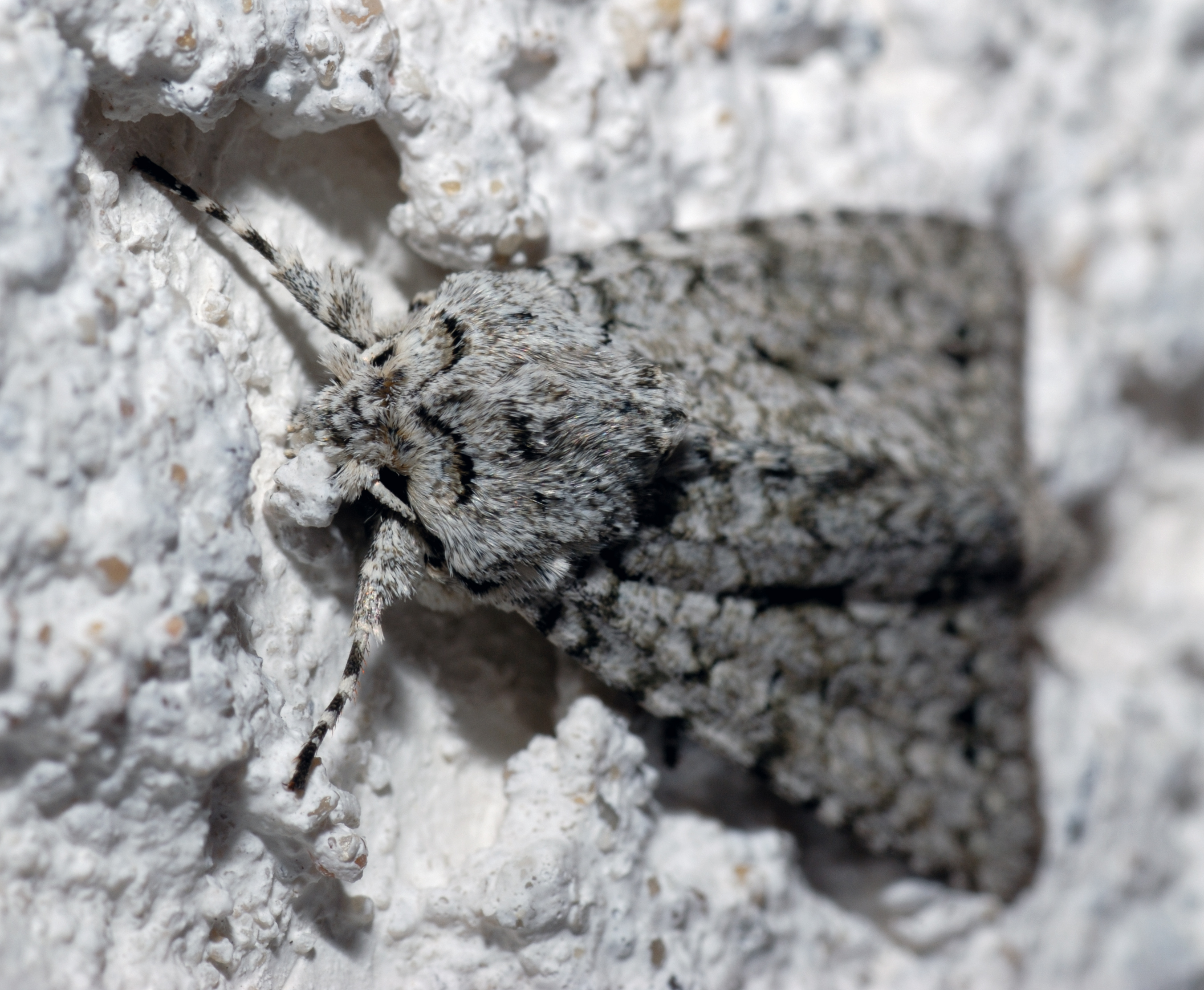 This image shows a Grey Chi (Antitype chi). The photo has been taken at the facade of a summerhouse in Drebach, Germany.